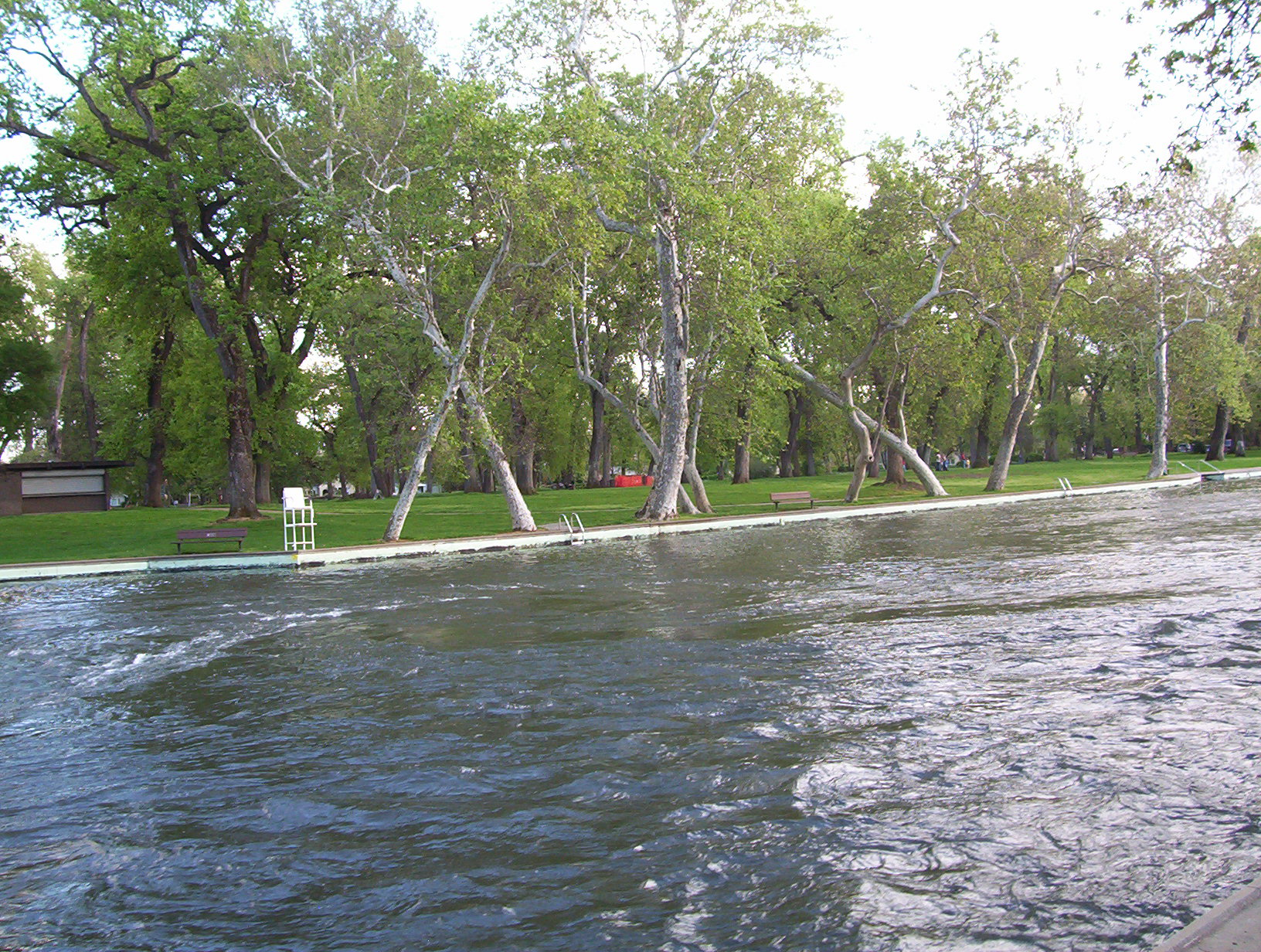 Swimming pool in Bidwell Park, Chico, California